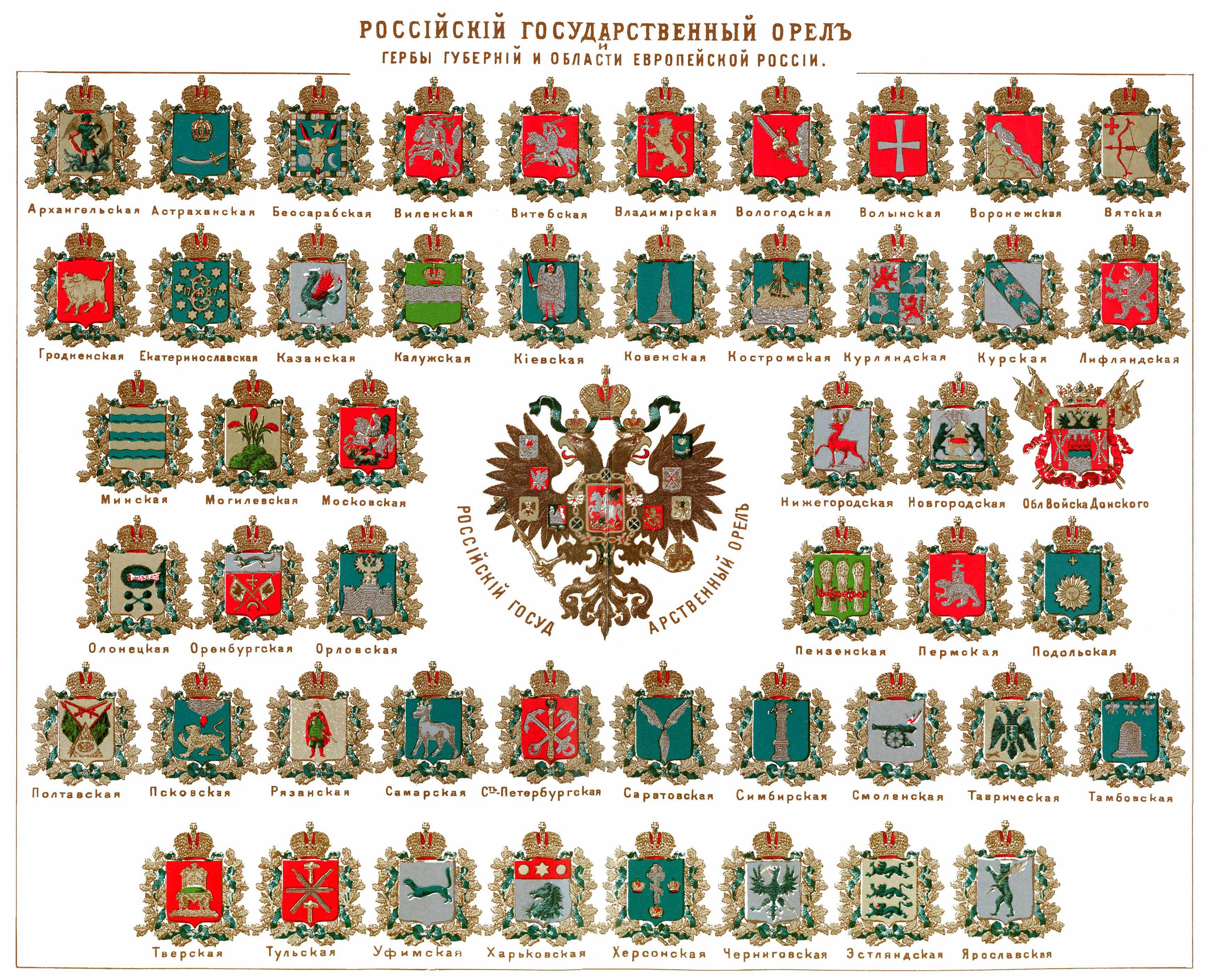 Illustration from Brockhaus and Efron Encyclopedic Dictionary (1890—1907)